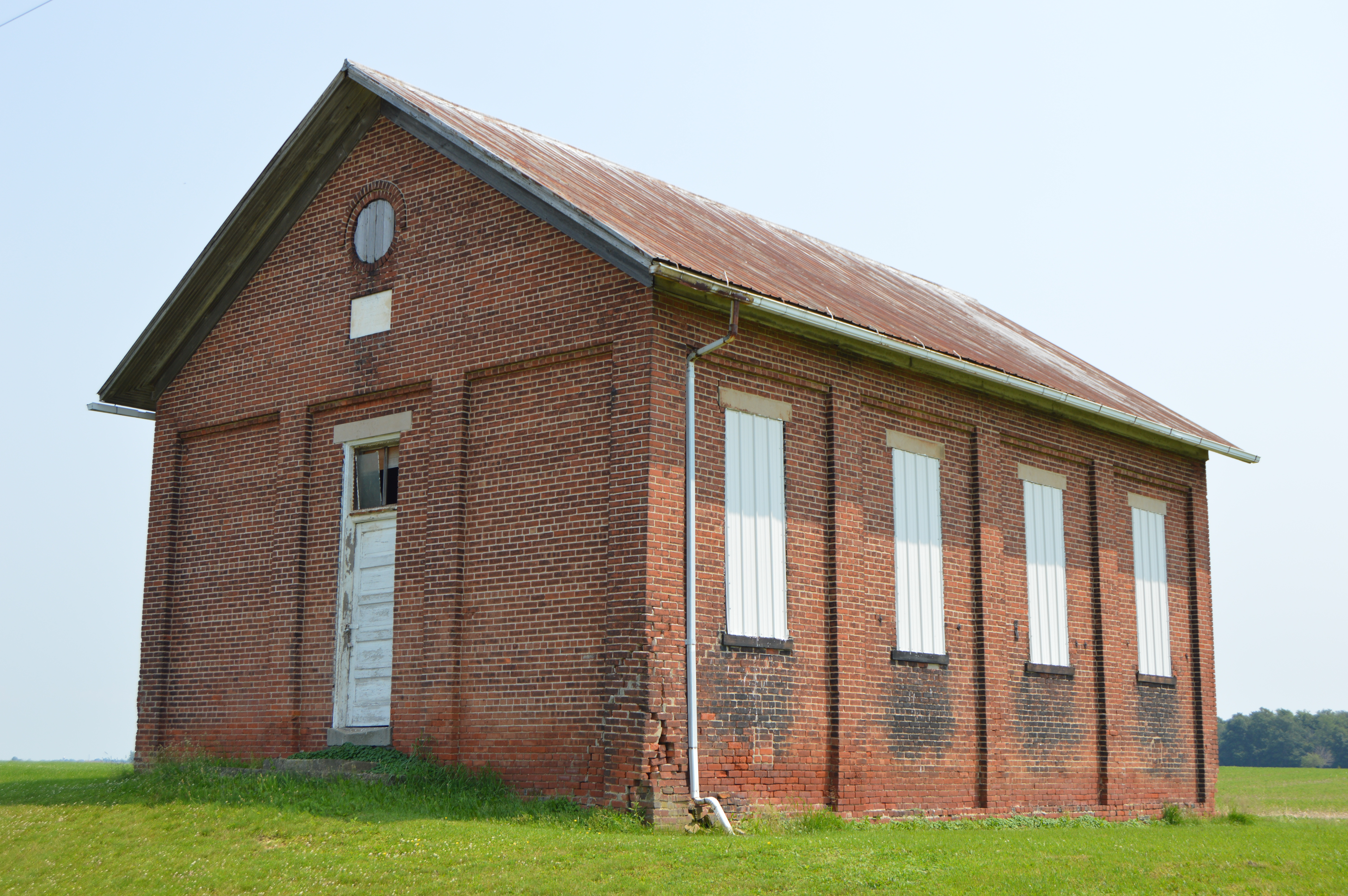 Western side and front of the former Liberty School #10, located at the junction of County Road 145 and Township Road 100 north of Kenton in Pleasant Township, Hardin County, Ohio, United States.